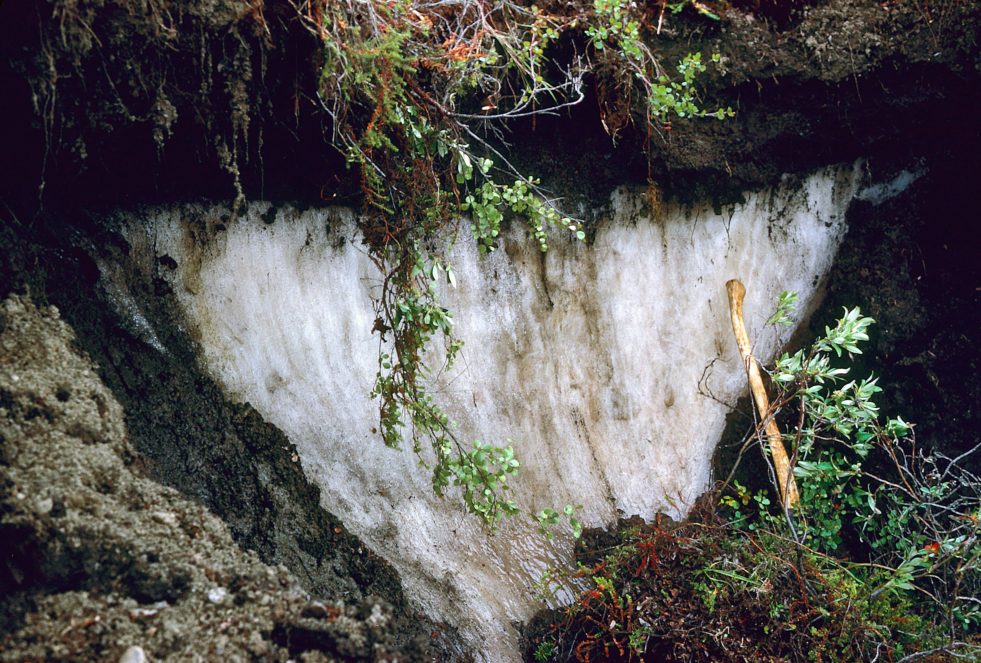 Detail of collapsed pingo (Mackenzie Delta, near Tuktoyaktuk). This It is injection ice, not an ice-wedge. Photo: Lorenz King, August 8,1987